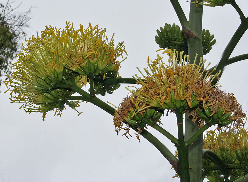 Agave sisalana (Syn. Agave rigida var. sisalana) - century plant, hemp plant, sisal, sisal agave, sisal hemp •